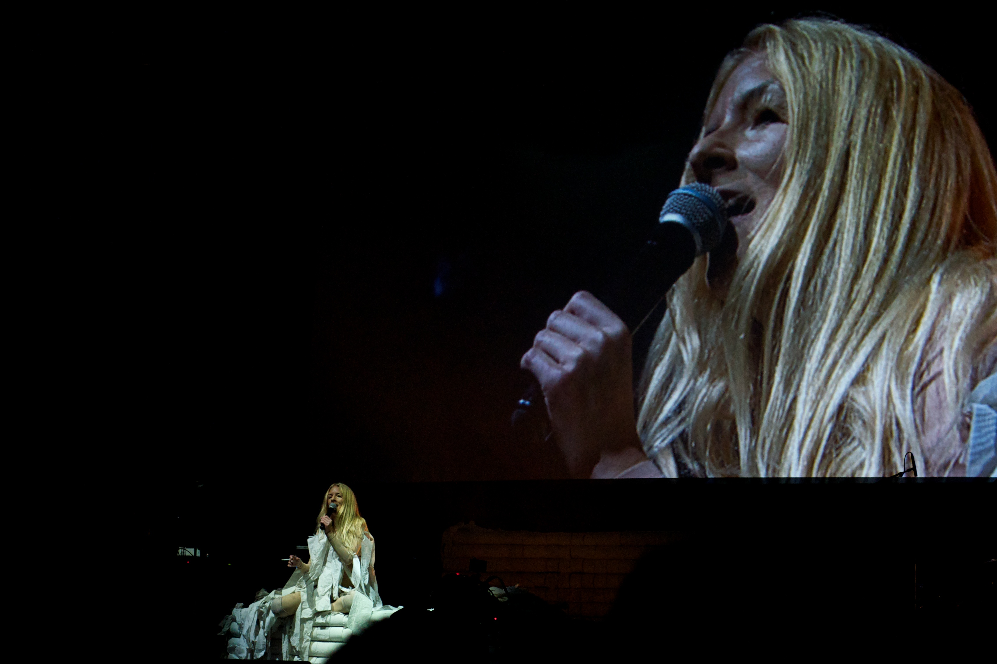 Iamamiwhoami singing live at a festival, Way Out West in Gothenburg, 2011.